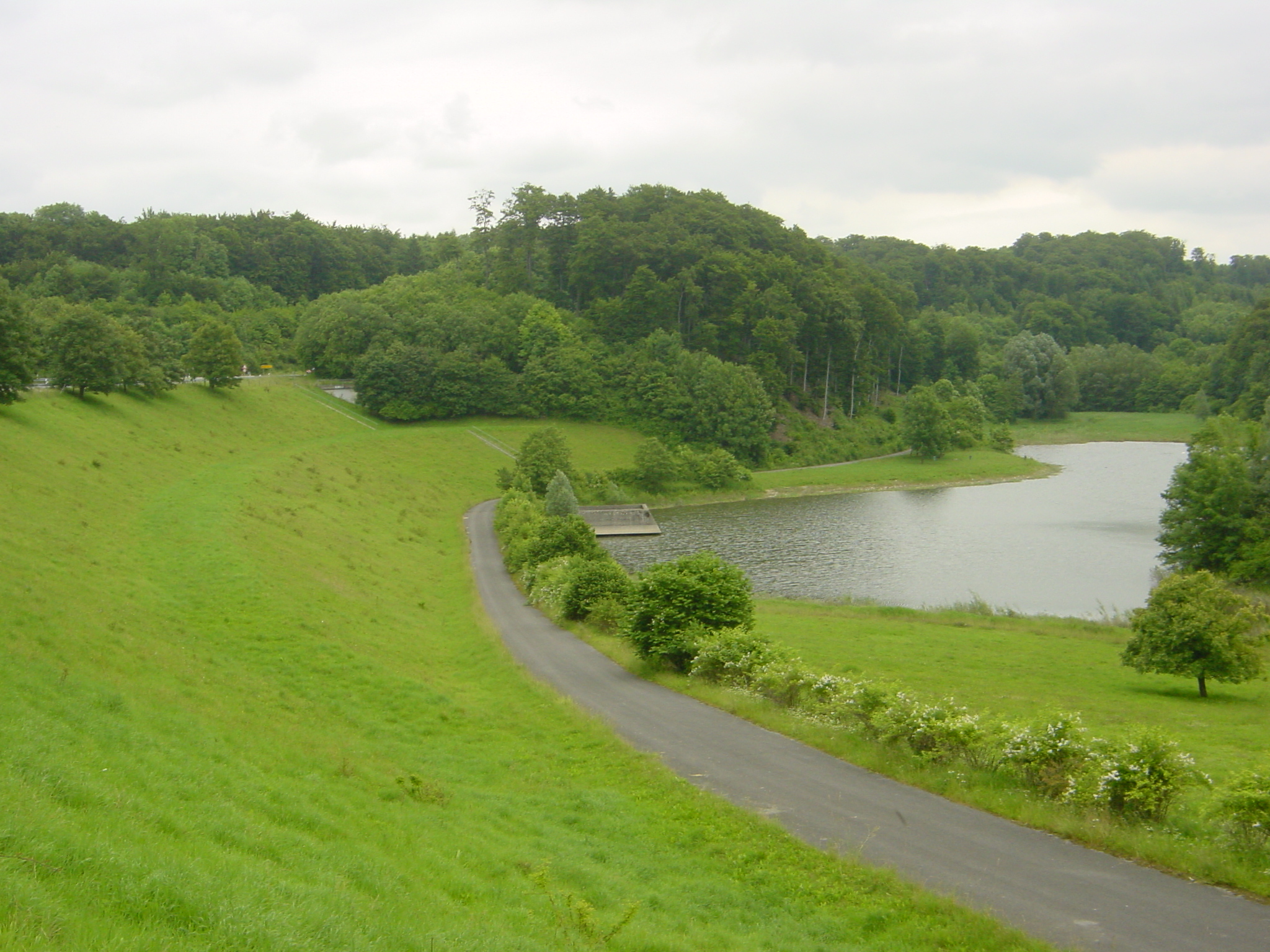 Retention basin Husen-Dalheim near Paderborn, Germany